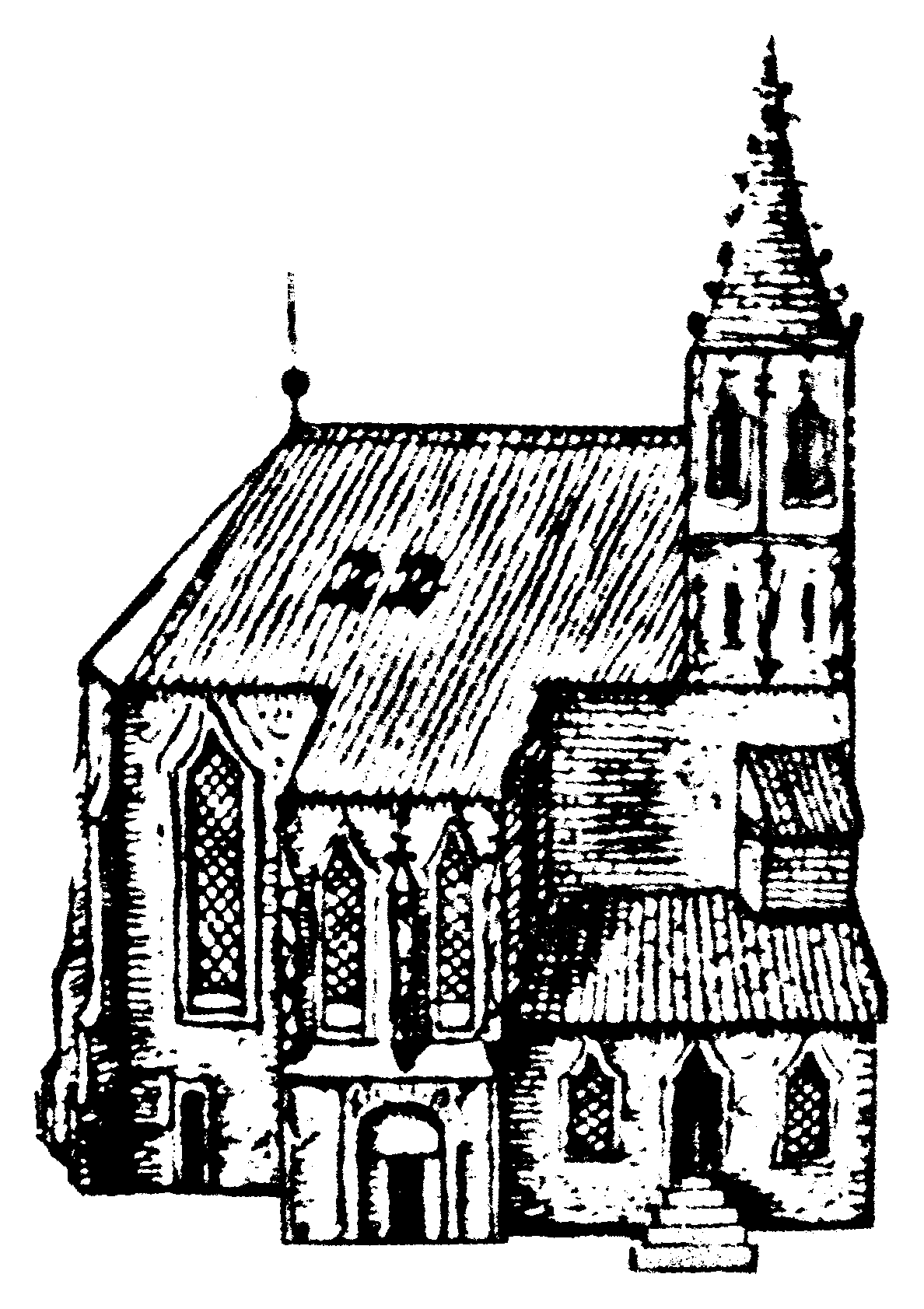 Drawing of the Magdalenskapelle, which sat upon the underground Virgilkapelle.